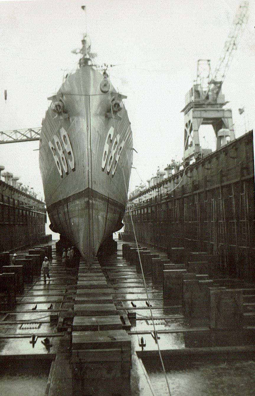 The U.S. Navy destroyer USS Wadleigh (DD-689) in dry dock at the Boston Naval Shipyard, Massachusetts (USA), circa in 1953. During this ovrhausl, the 40mm mounts were replaced with new 76mm guns.